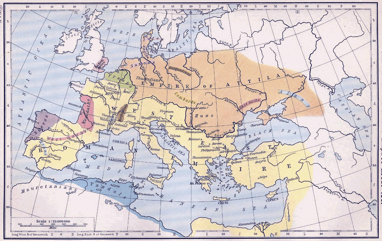 Empire of the Huns (public domain map)